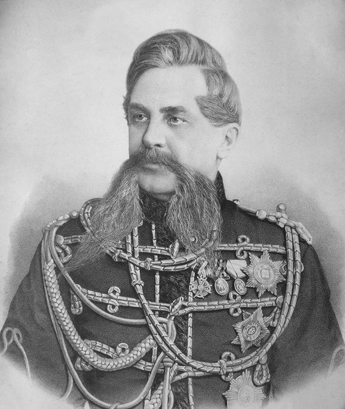 The General Officer Petr Pavlovich Albedinskiy (1826-1883)